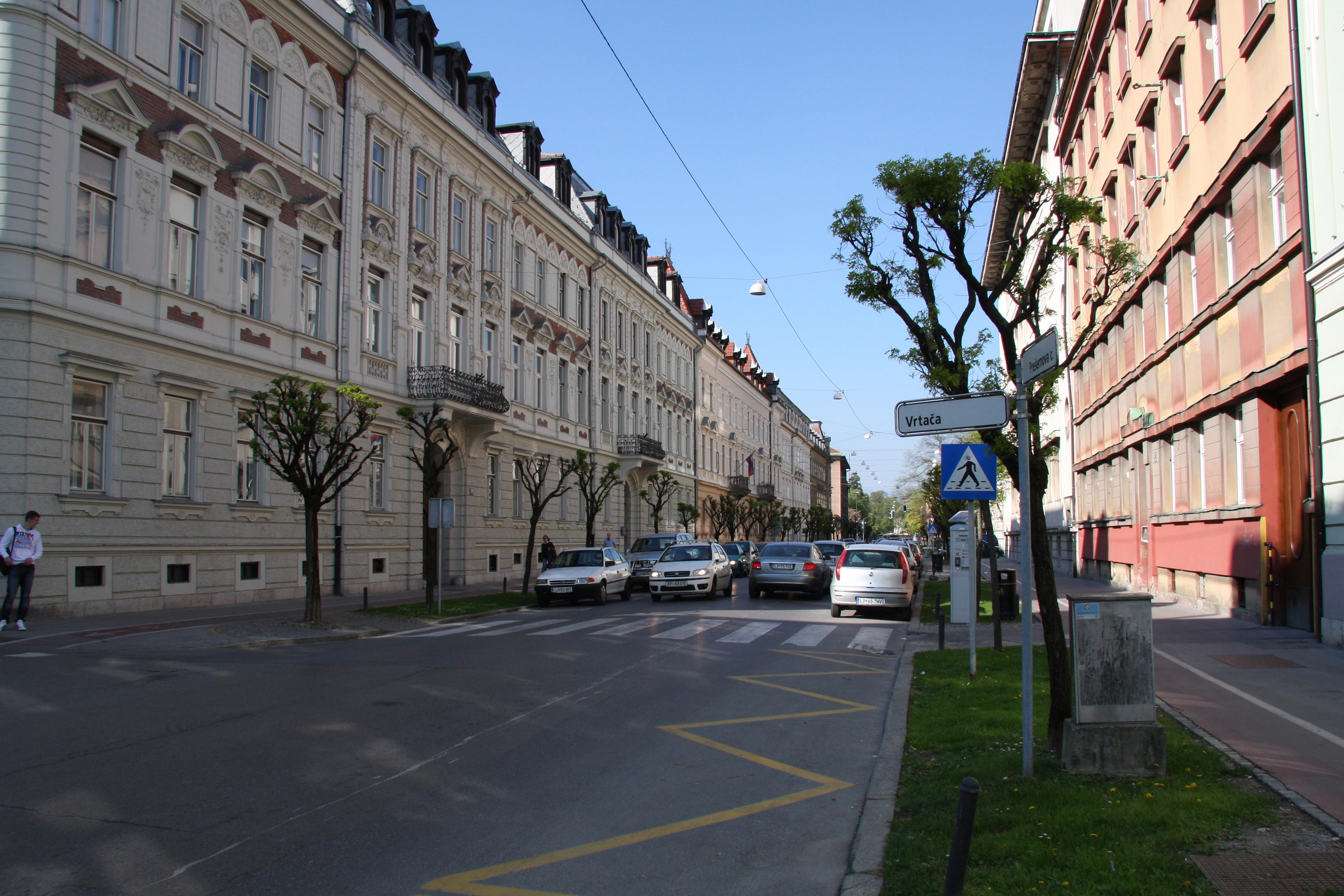 View along Prešernova road, Ljubljana.